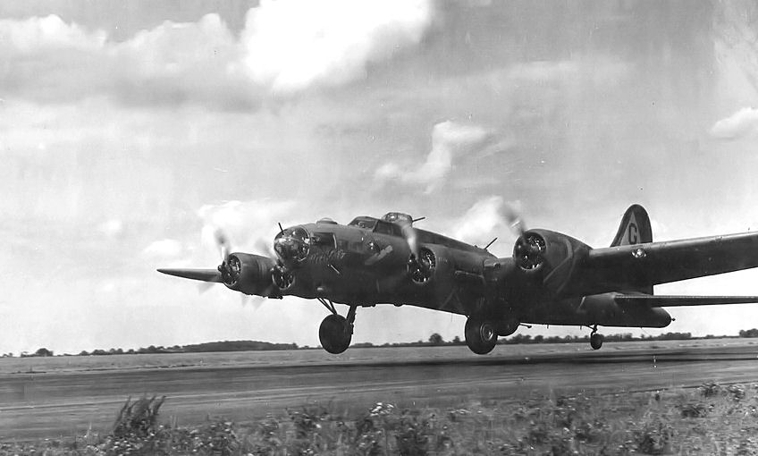 "Hell Cat" Lockheed/Vega B-17F-35-VE Flying Fortress s/n 42-5910, of 365th BS, 305th BG, 8th AF. This aircraft was originally assigned to the 326th BS, 92nd BG and named "Ruthie". She was badly shot up by fighters on the July 4,1943 mission to Nantes but managed to make it back to Alconbury. After being repaired she was transfered to the 305th BG and renamed "Hell Cat". Ran out of fuel and crashlanded at Hawkinge,England on September 15,1943. Scrapped two days later. Photo taken at: RAF Chelveston (AAF-105), England